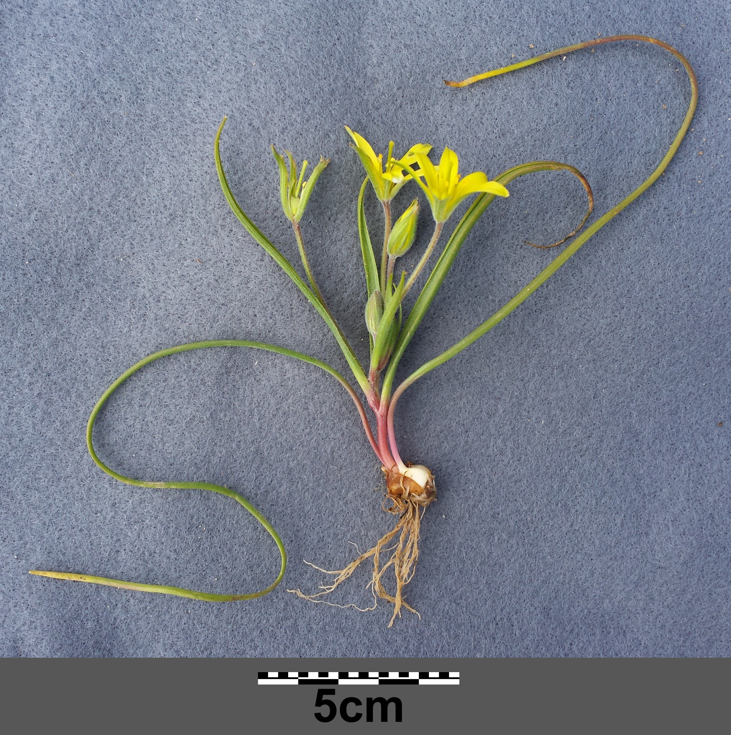 Whole plant Taxonym: Gagea villosa ss Fischer et al. EfÖLS 2008 ISBN 978-3-85474-187-9 Location: near Manhartsbrunn, district Mistelbach, Lower Austria - ca. 250 m a.s.l. Habitat: field